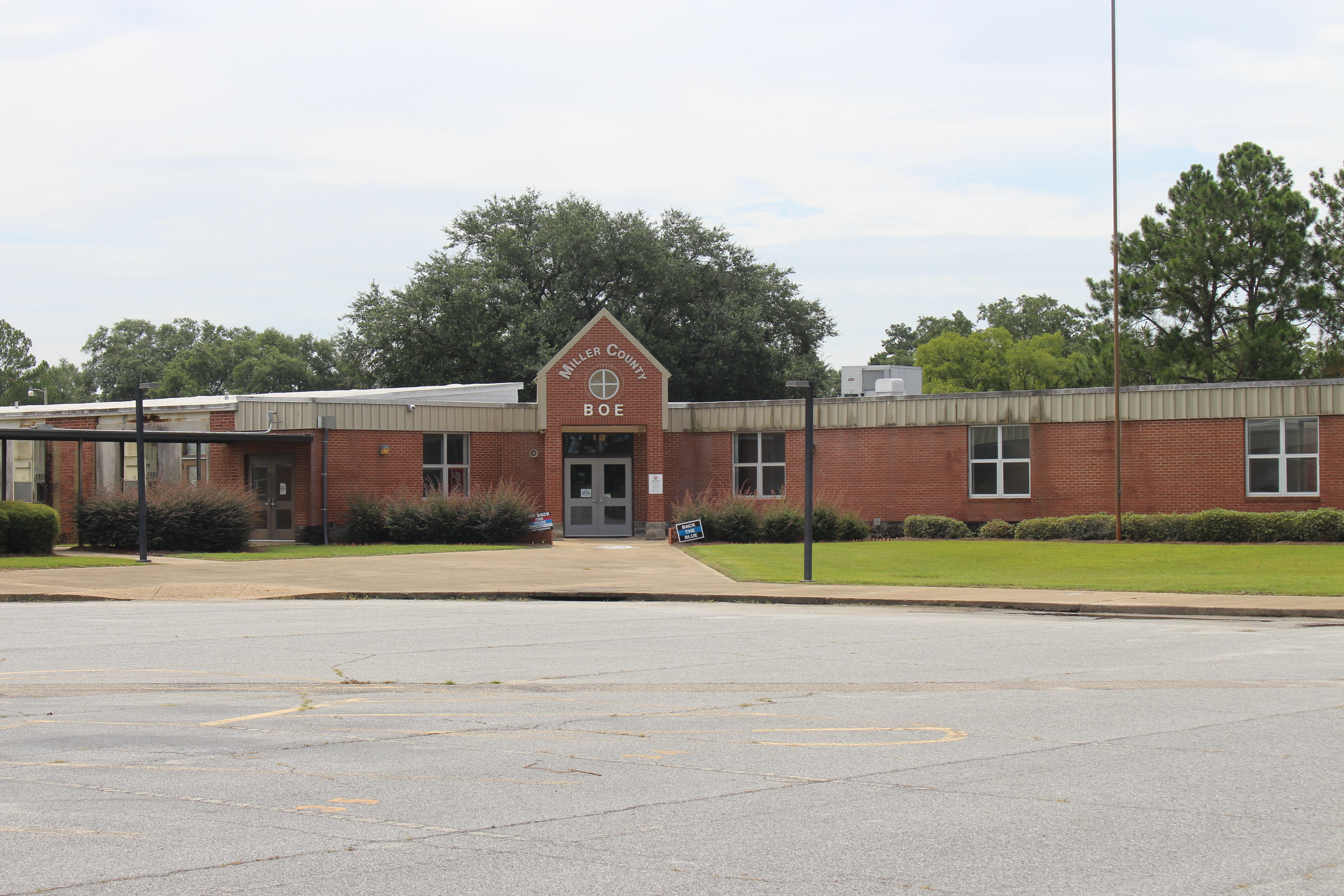 Miller County Board of Education in former Miller County High School building, Colquitt, Miller County, Georgia